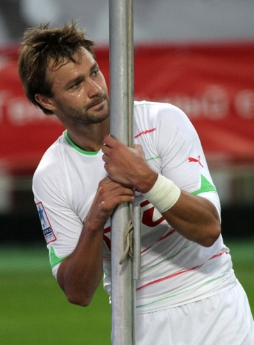 Dmitry Sychev in action for FC Lokomotiv Moscow